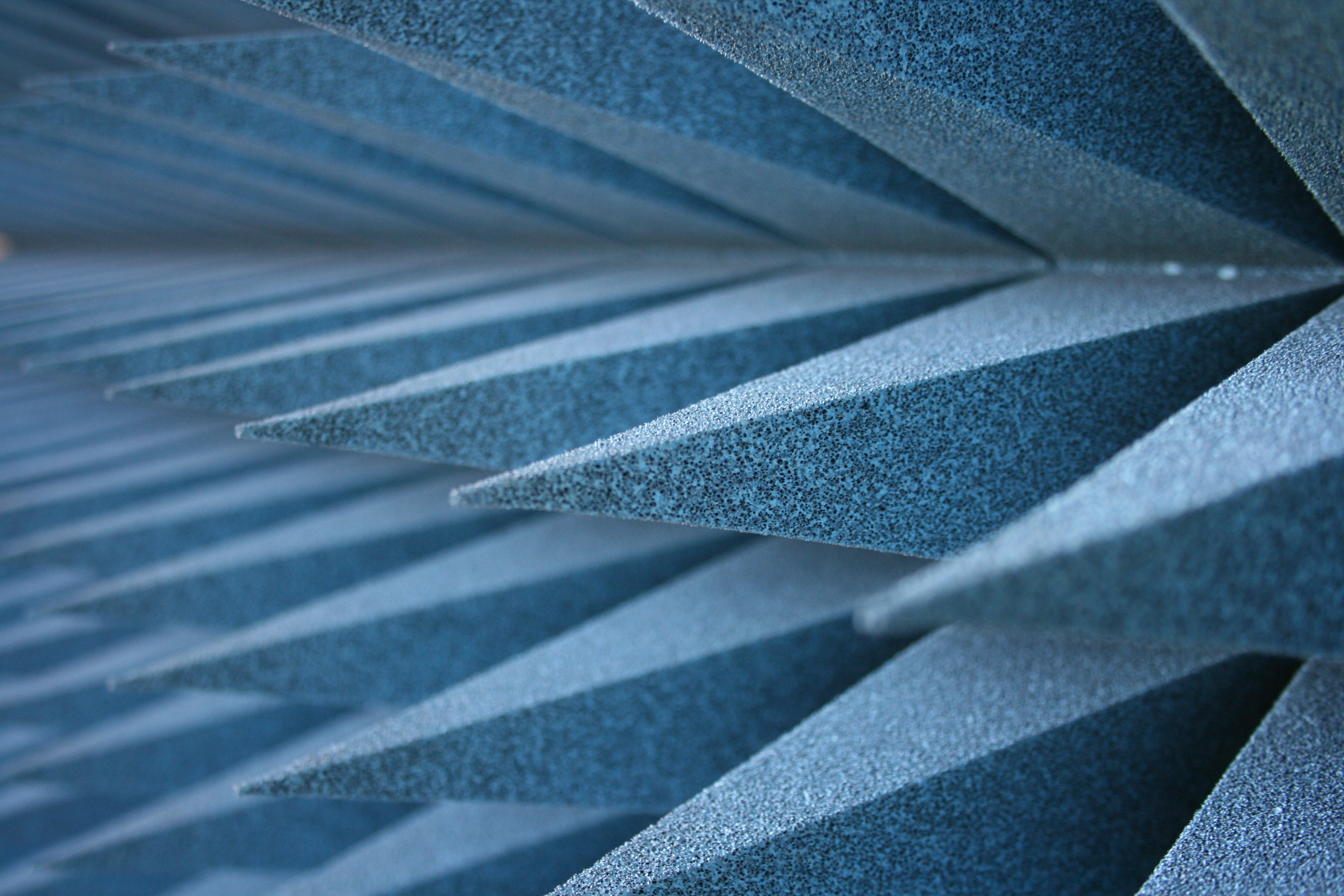 Radio wave absorbing foam mounted on a wall at Toruń Centre for Astronomy, Toruń, Poland.